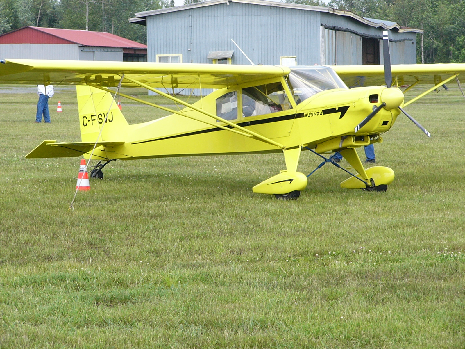 Norman Aviation Nordic VII advanced ultralight aircraft at Les Faucheurs de Marguerites, Sherbrooke, Quebec, Canada.